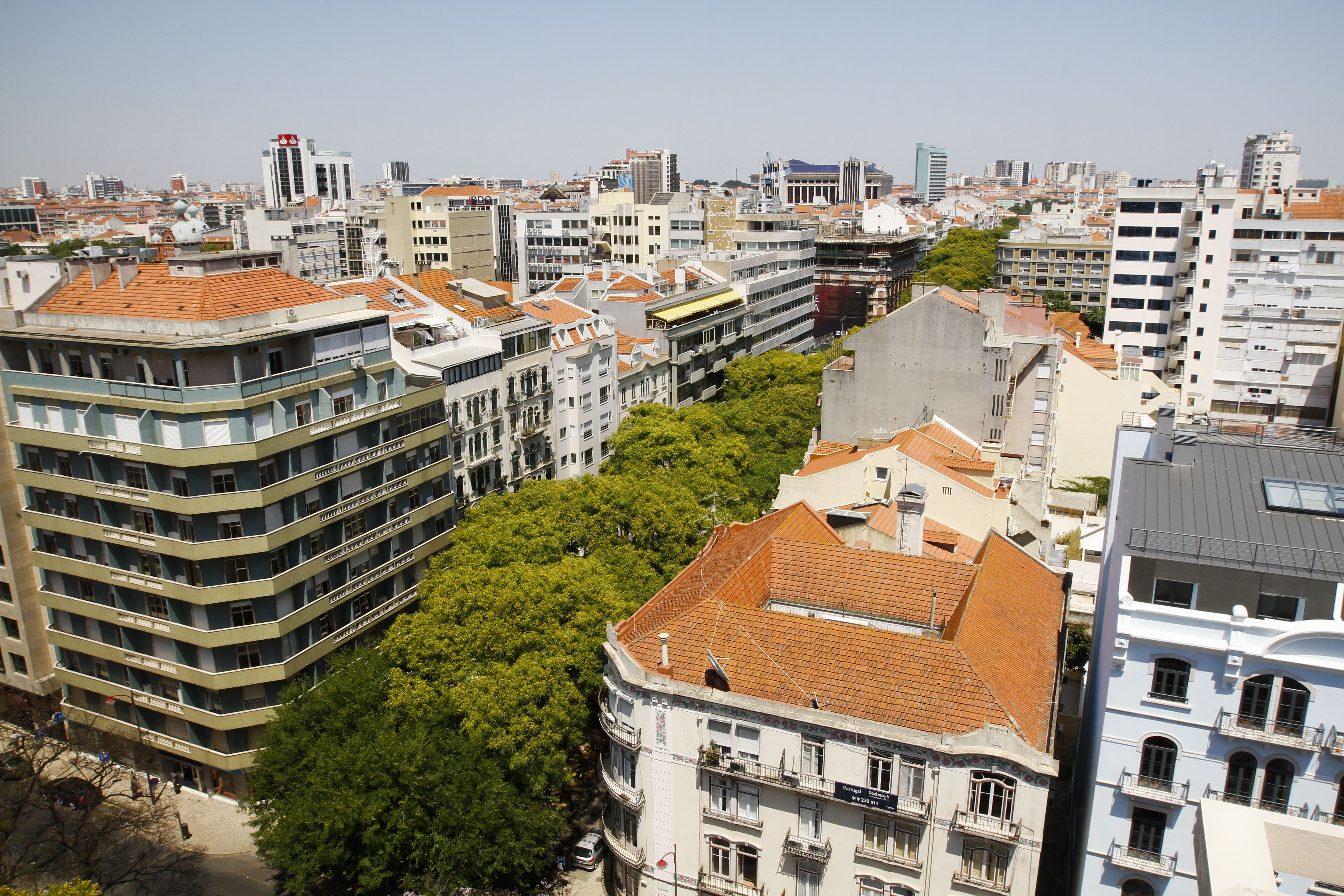 Looking east with Avenida Elias Garcia in the Avenidas Novas district of Lisbon